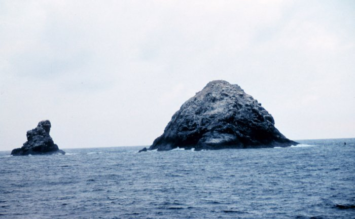 Gardner Pinnacles, Northwestern Hawaiian Islands - numerous sharks made landing here very exciting. They attempted to attack the biologists swimming to shore